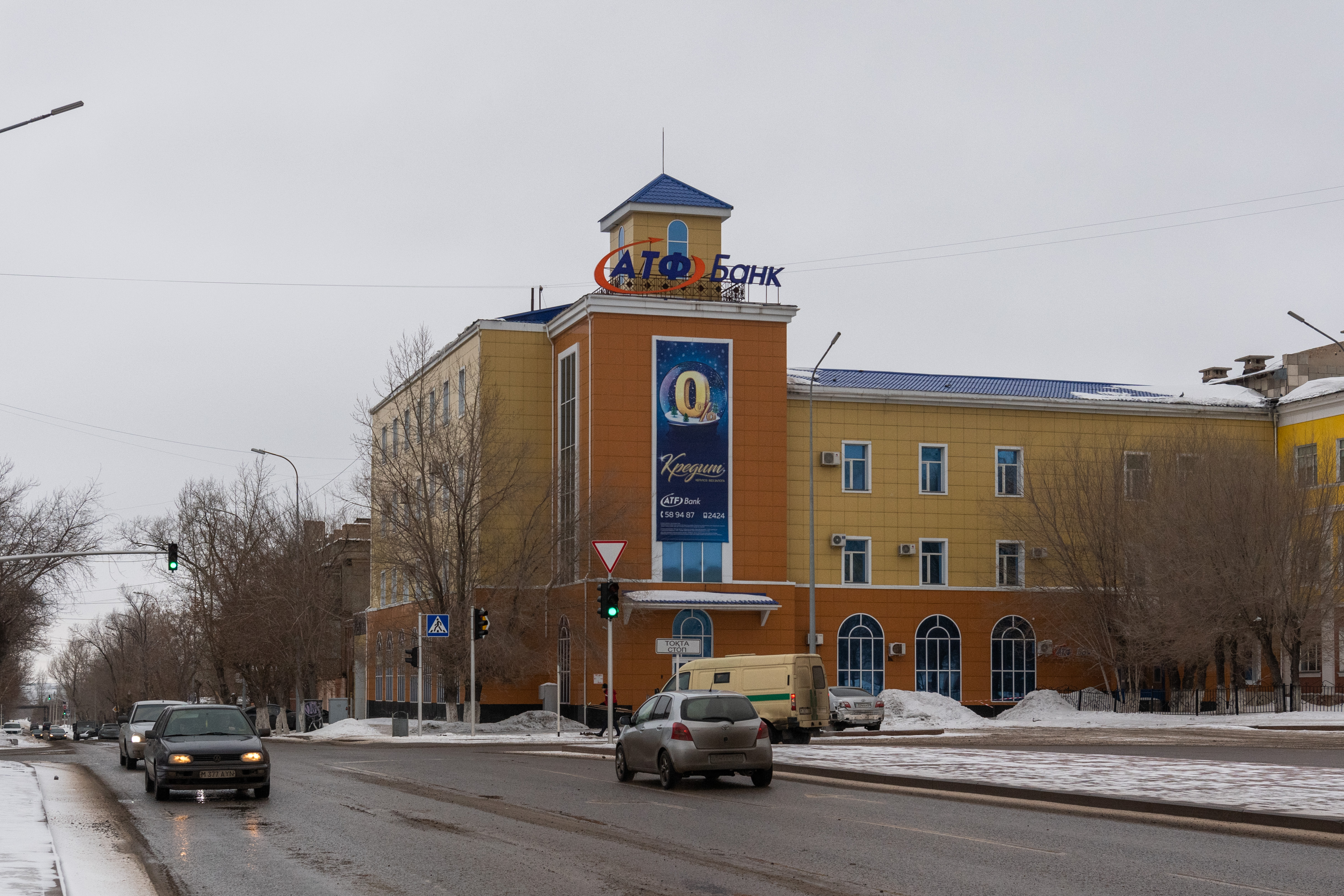 Karaganda, Kazakhstan